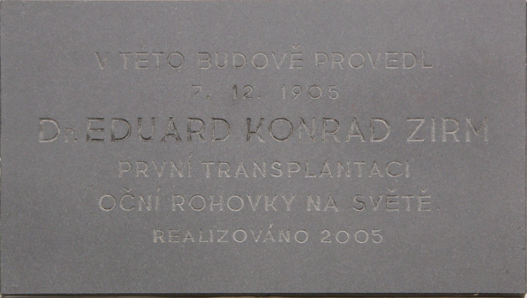 Memorial plaque of Eduard Konrad Zirm on the building of Eye Clinic of University Hospital in Olomouc (Czech Republic). The Czech inscription reads: The world's first corneal transplant was performed in this building by Dr. Eduard Konrad Zirm on December 7, 1905. [Plaque] erected in 2005.